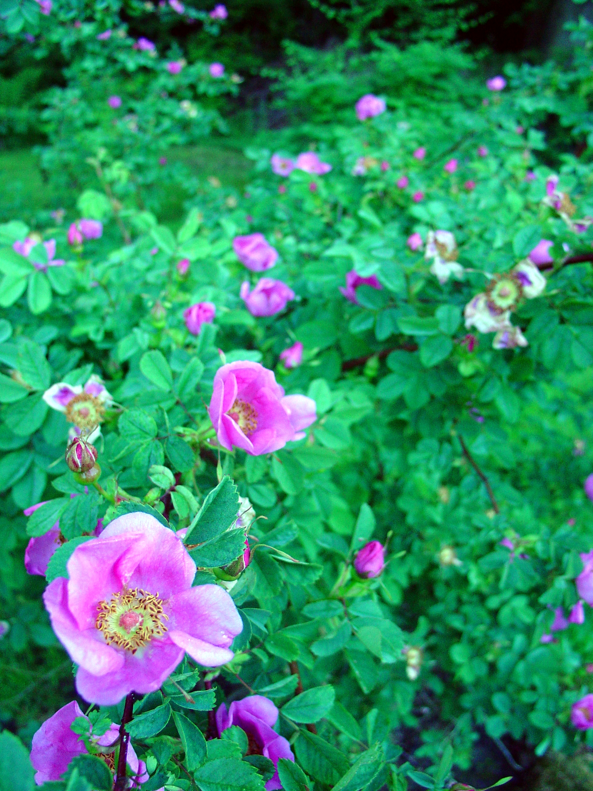 Rosa nutkana bush and flowers in Seattle, WA.